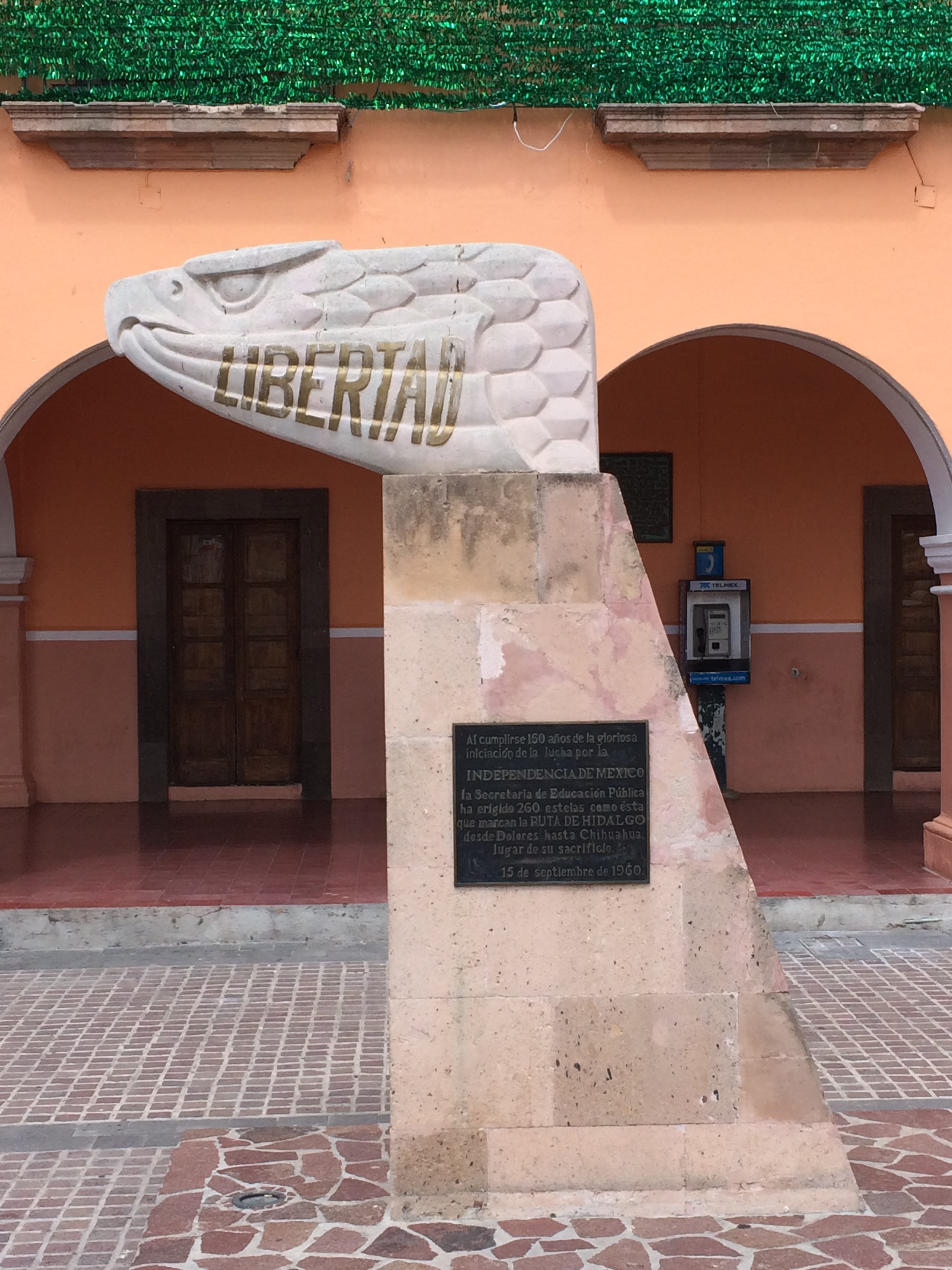 One of 260 eagle heads eagle heads, all designed by Tomás Chávez Morado, serves as a monument along the route of Hidalgo the Liberator, or Miguel Hidalgo y Costilla, who is known for “El Grito de Dolores,” the battle cry of the Mexican Independence. The route starts in Dolores Hidalgo, Guanajuato, and ends in Monte de las Cruces in the city of Chihuahua, Chihuahua.